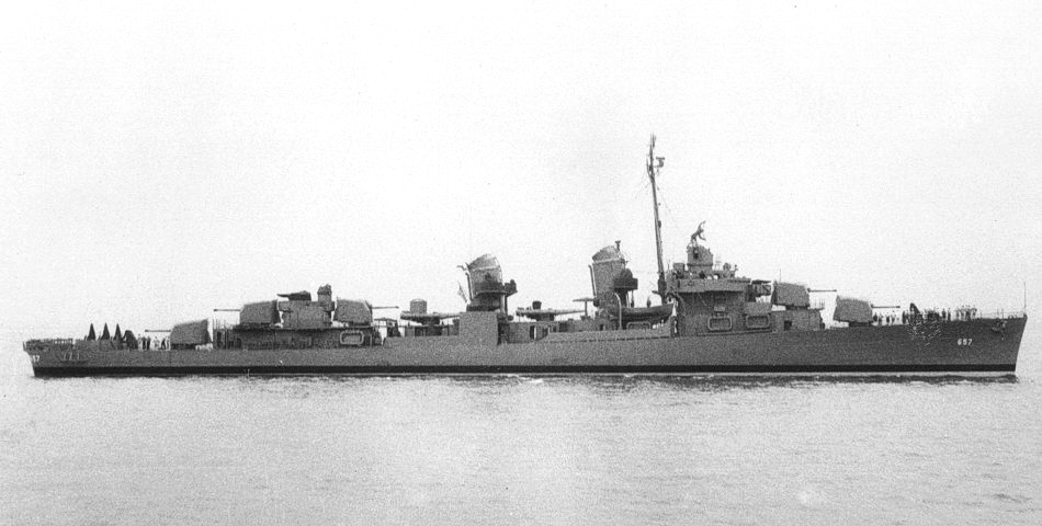 The U.S. Navy destroyer USS Charles J. Badger (DD-657) on 22 July 1943. She was commissioned in the U.S. Navy the next day.